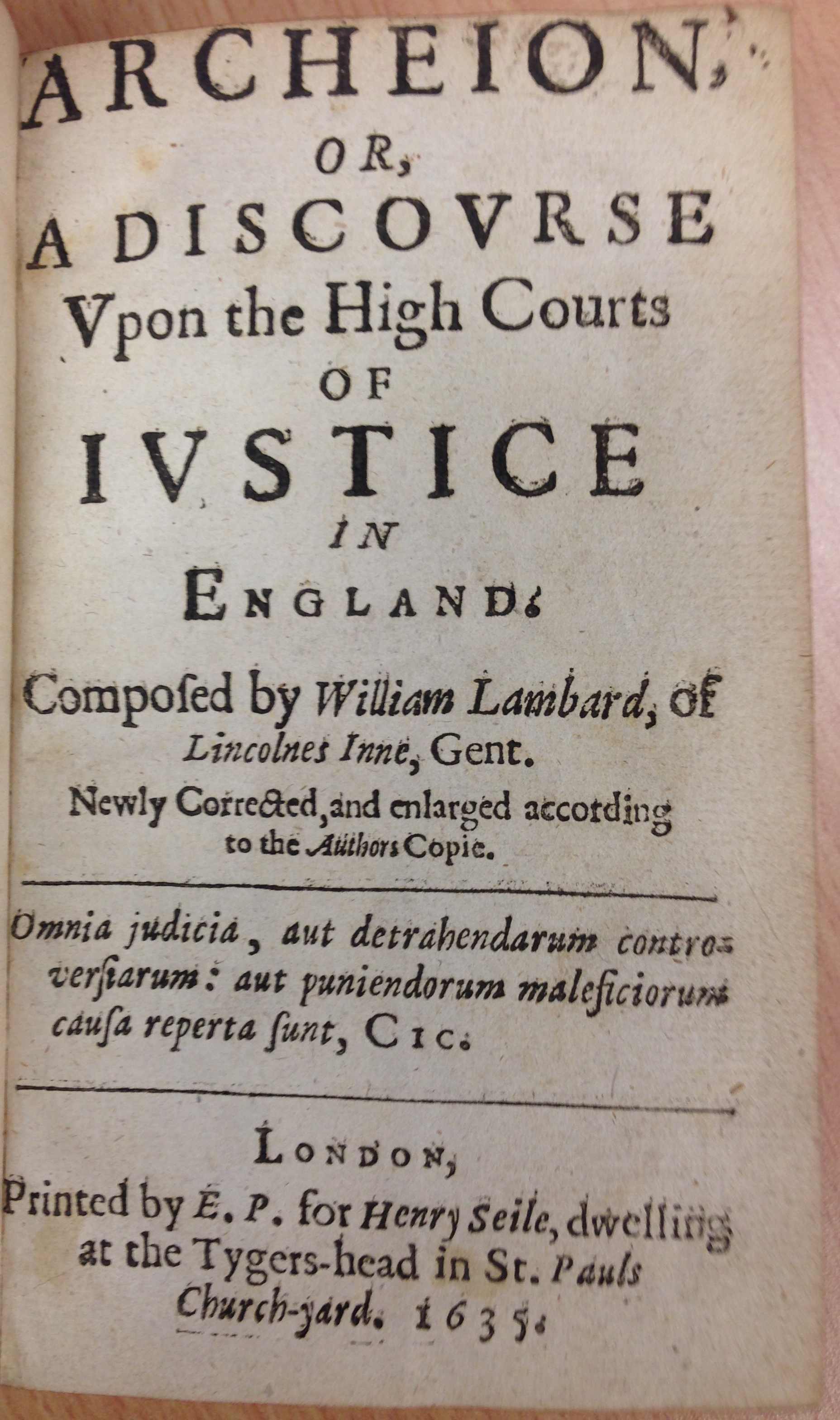 The title page of William Lambarde (1635) Archeion, or, a Discourse upon the High Courts of Justice in England. Composed by William Lambard, of Lincolnes Inne, Gent (Newly corrected, and enlarged according to the author's copie ed.), London: Printed by E. P[urslowe] for Henry Seile, dwelling at the Tygers-head in St Pauls Church-yard OCLC: 216661922. The text on the title page is as follows: "ARCHEION, / OR, / A DISCOVRSE / vpon the High Courts / OF / IVSTICE / IN / ENGLAND. [The Greek word ἀρχεῖον (archeion) "properly means any public place belonging to the magistrates", and "[a]t Athens the name was more particularly applied to the archive office, where the decrees of the people and other state documents were preserved": William Smith; William Wayte & G[eorge] E[den] Marindin, eds. (1890–1891) A Dictionary of Greek and Roman Antiquities, London: John Murray OCLC: 458914791. ] "Compoſed by William Lambard, of / Lincolnes Inne, Gent. "Newly Corrected, and enlarged according / to the Authors Copie. "Omnia judicia, aut detrahendarum contro- / verſiarum: aut puniendorum maleficiorum / cauſa reperta ſunt, CIC. ["All judicial proceedings have been devised either for the sake of putting an end to disputes, or of punishing crimes." Marcus Tullius Cicero, Pro Cæcina II, § 6. Translation from Marcus Tullius Cicero; C[harles] D[uke] Yonge, transl. (1856) The Orations of Marcus Tullius Cicero, London: Henry G[eorge] Bohn OCLC: 7609509. ] "LONDON / Printed by E. P. for Henry Seile, dwelling / at the Tygers-head in St. Pauls / Church-yard. 1635."